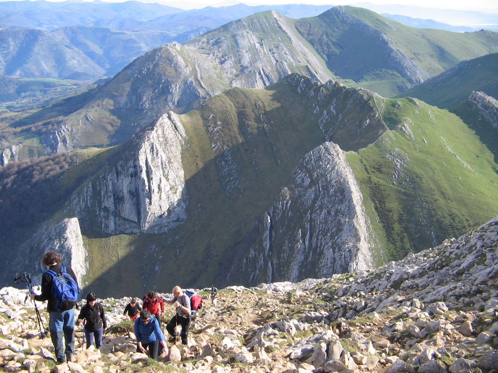 Climb to Mt. Txindoki in Aralar, view to the east